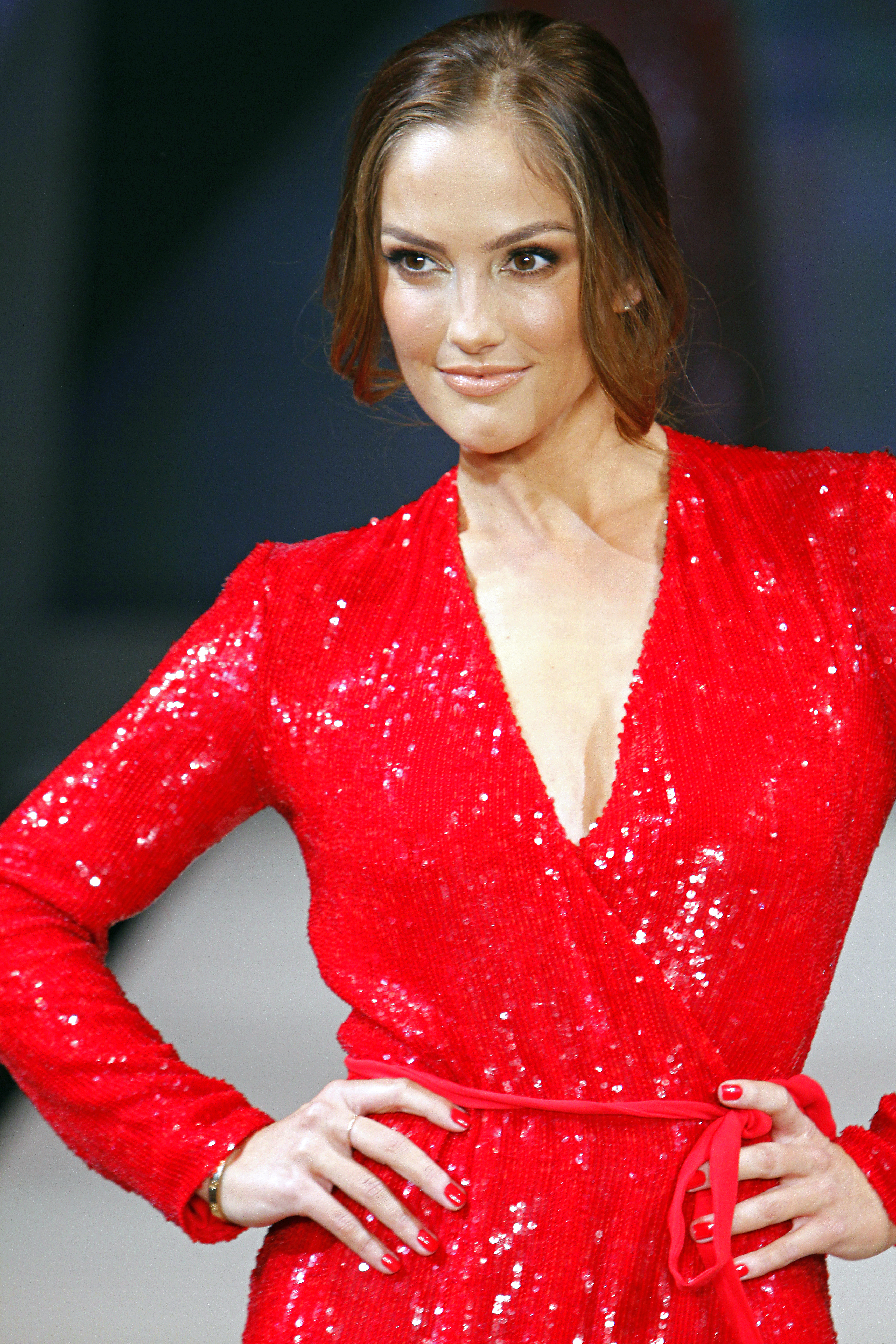 Minka Kelly wearing a Diane von Furstenberg dress at the The Heart Truth's Red Dress Collection Fashion Show 2012. Photo by Dan & Corina Lecca